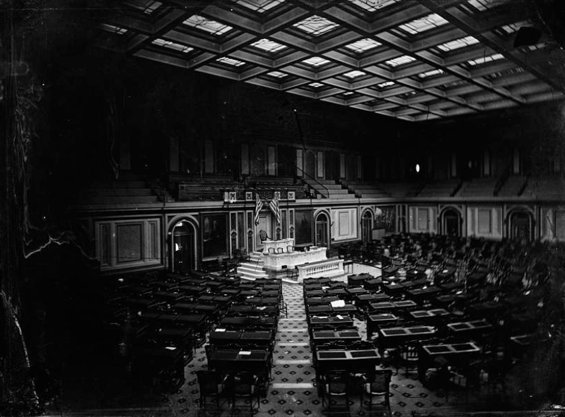 Earliest know photograph of the interior of the United States Capitol building taken in 1860